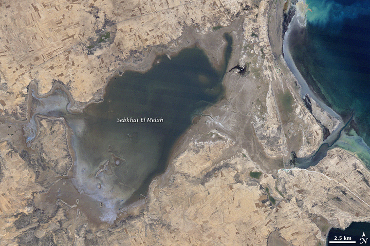 Sebkha El Melah in 1987, Medenine, Tunisia